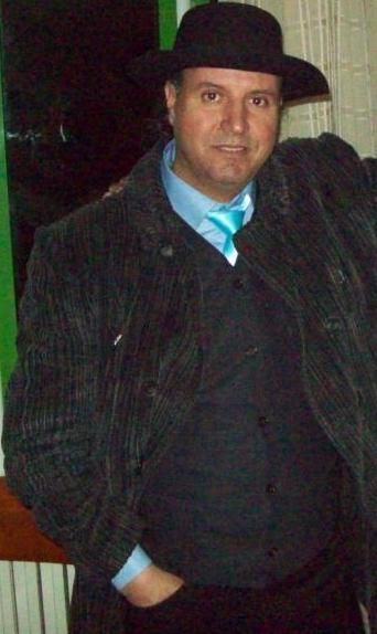 Le chanteur Massinissa